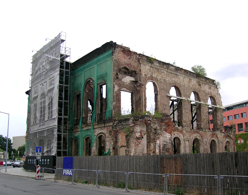 The Kurländer Palais, Dresden, 2006. Before reconstruction.